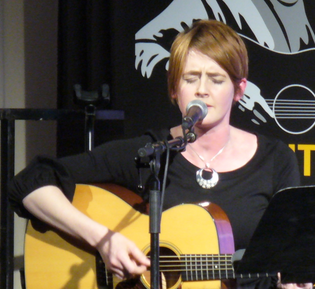 Karine Polwart performing at the 'Tribute to Alistair Hulett' concert at Celtic Connections, 28 January 2011. Cropped version.